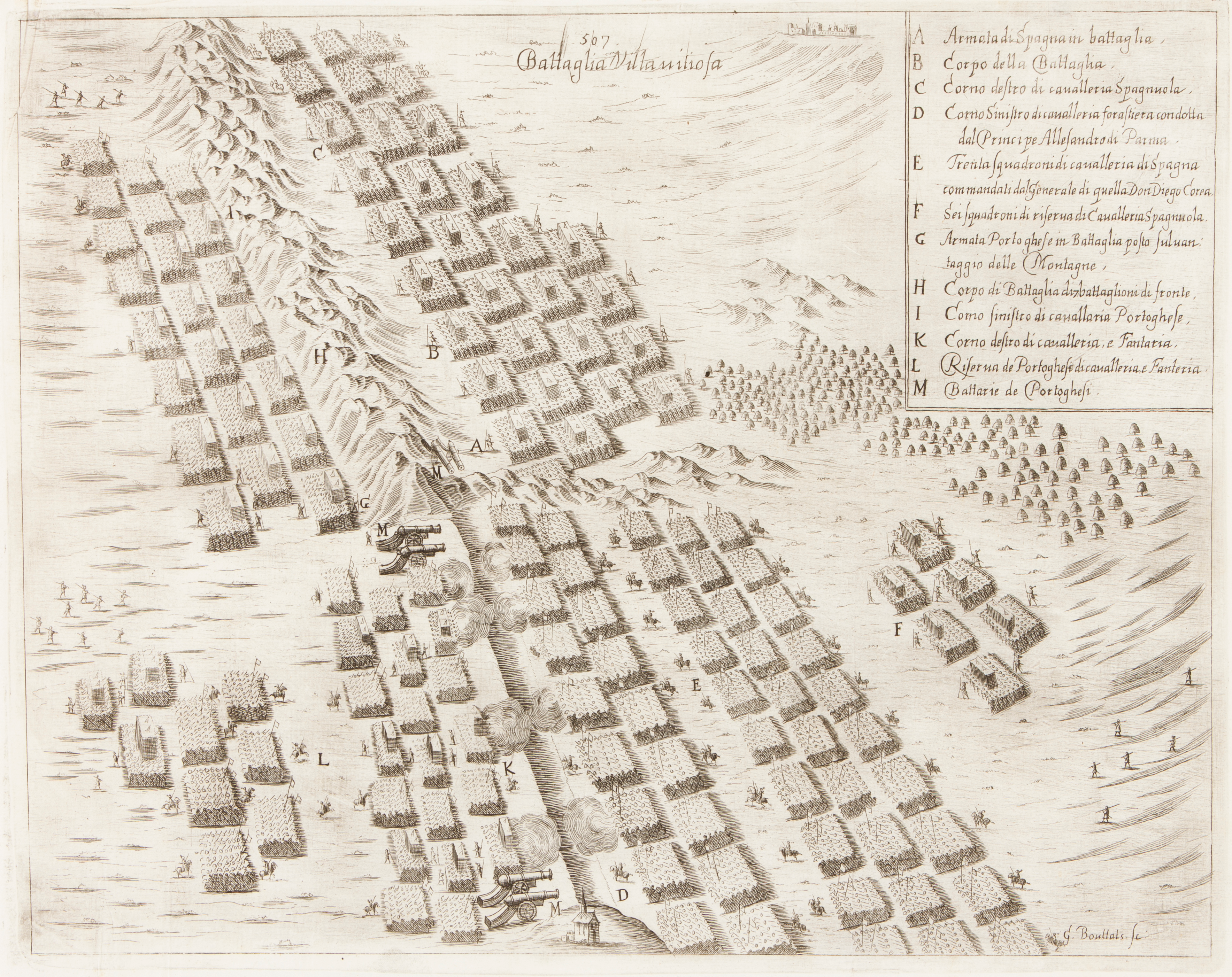 The Battle of Montes Claros (referred to in the print as "of Vila Viçosa", a town nearby), on 17 June 1665. Contemporary engraving (1668), by Gaspar Bouttats.